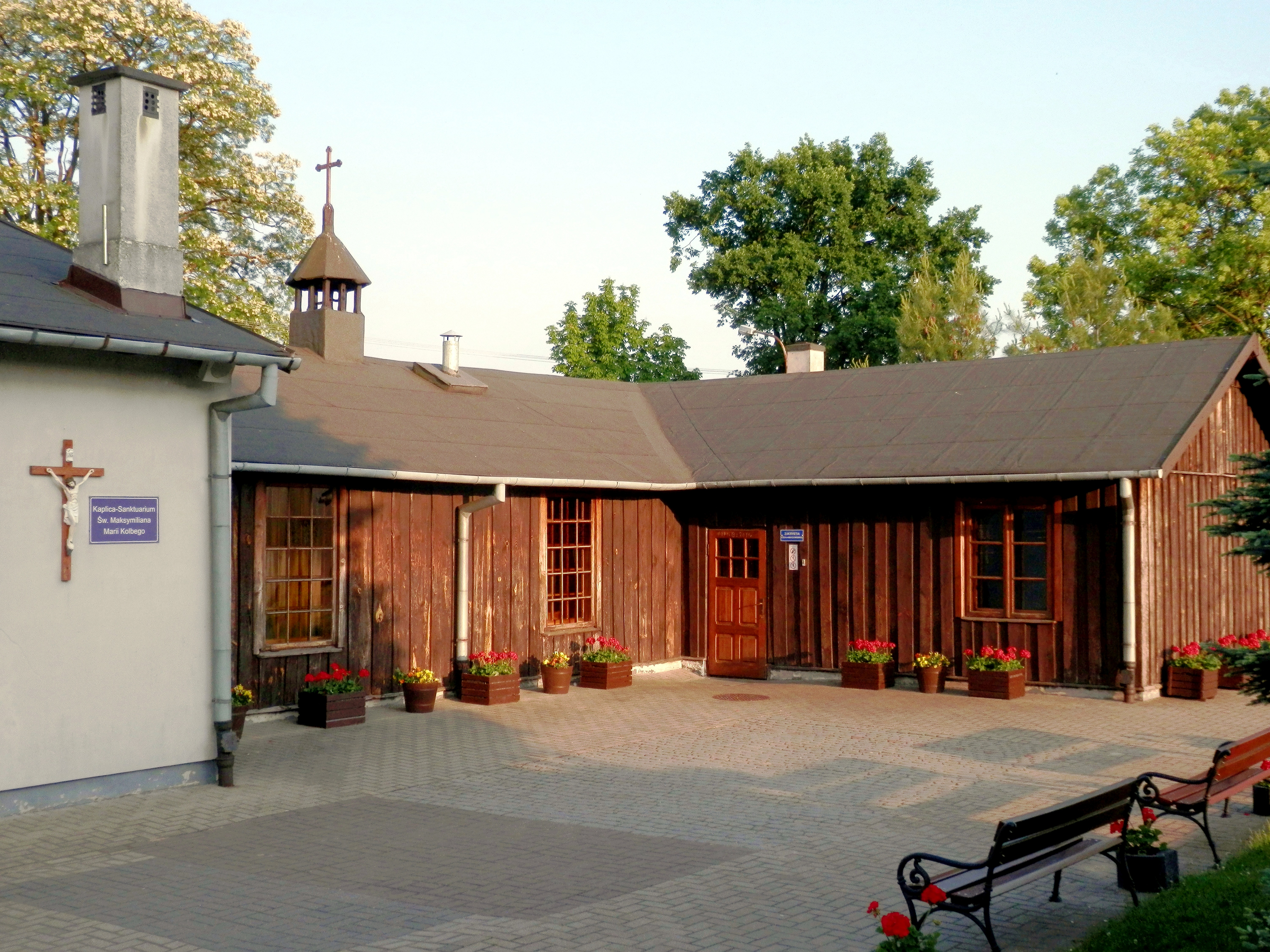 Old wooden chapel (from 1927) in Niepokalanów monastery, Poland